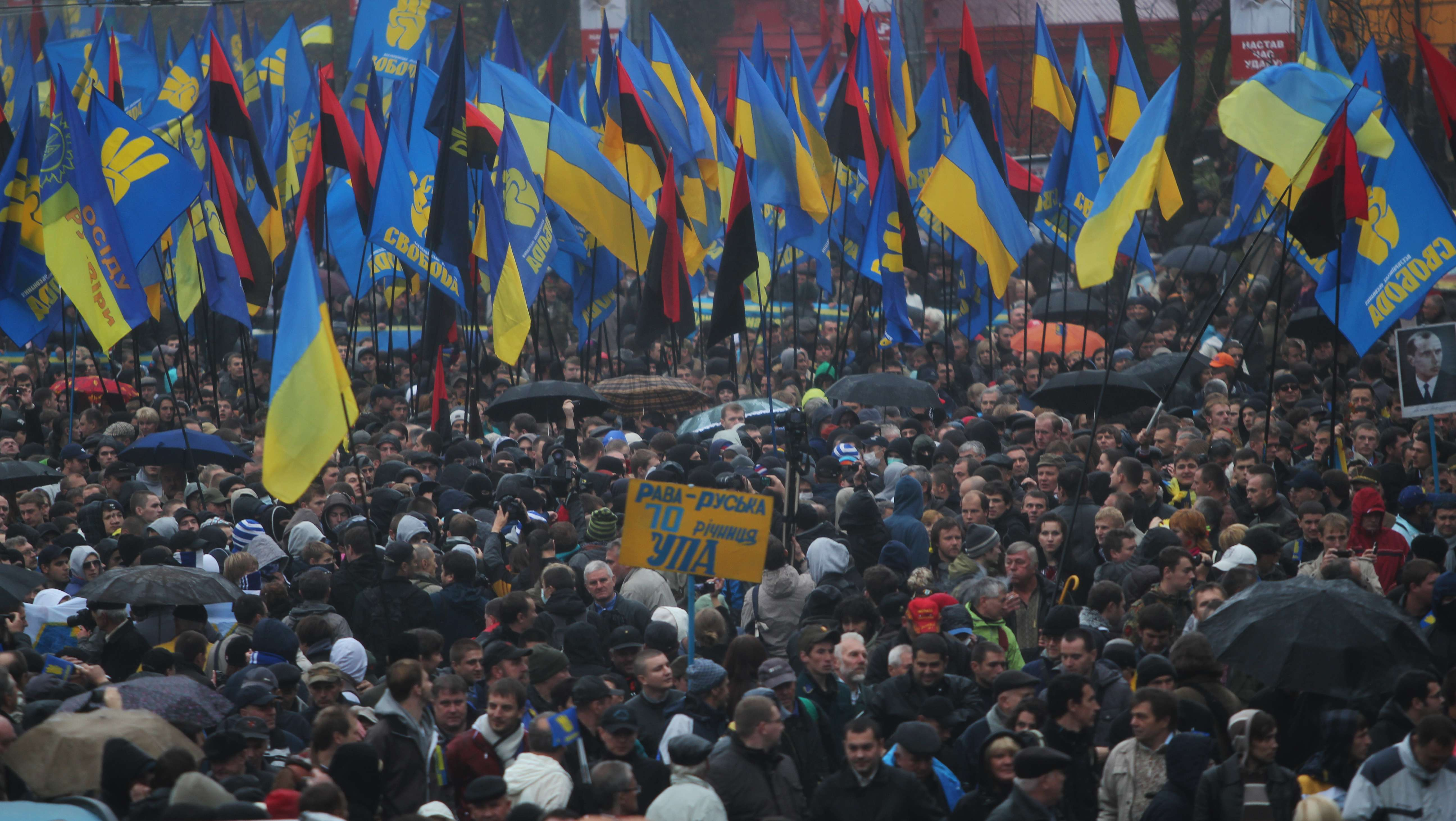 2012 UPA March in Kiev, 14 October 2012.